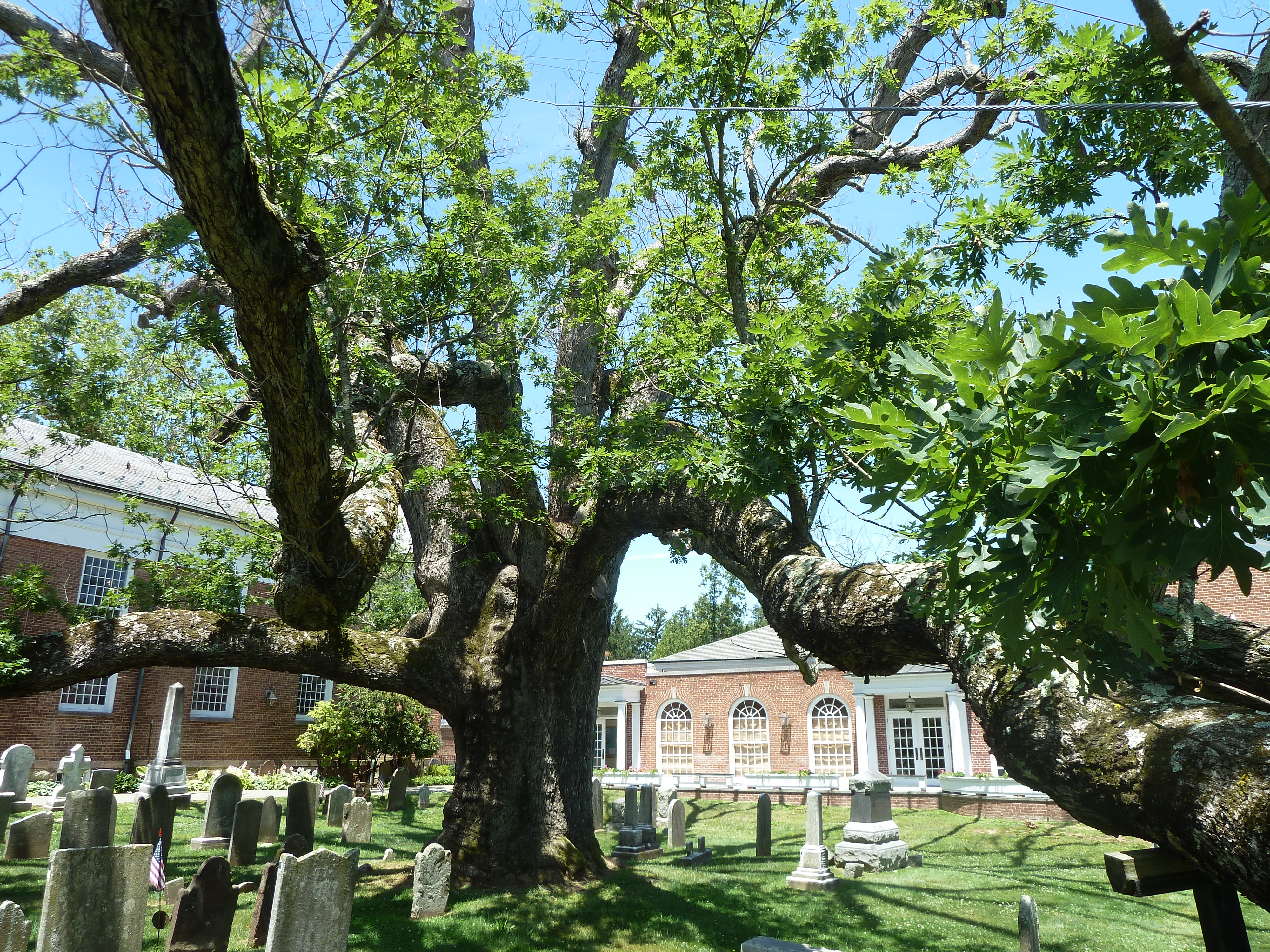 The Basking Ridge Oak in 2016. Only lower parts of the tree are green.